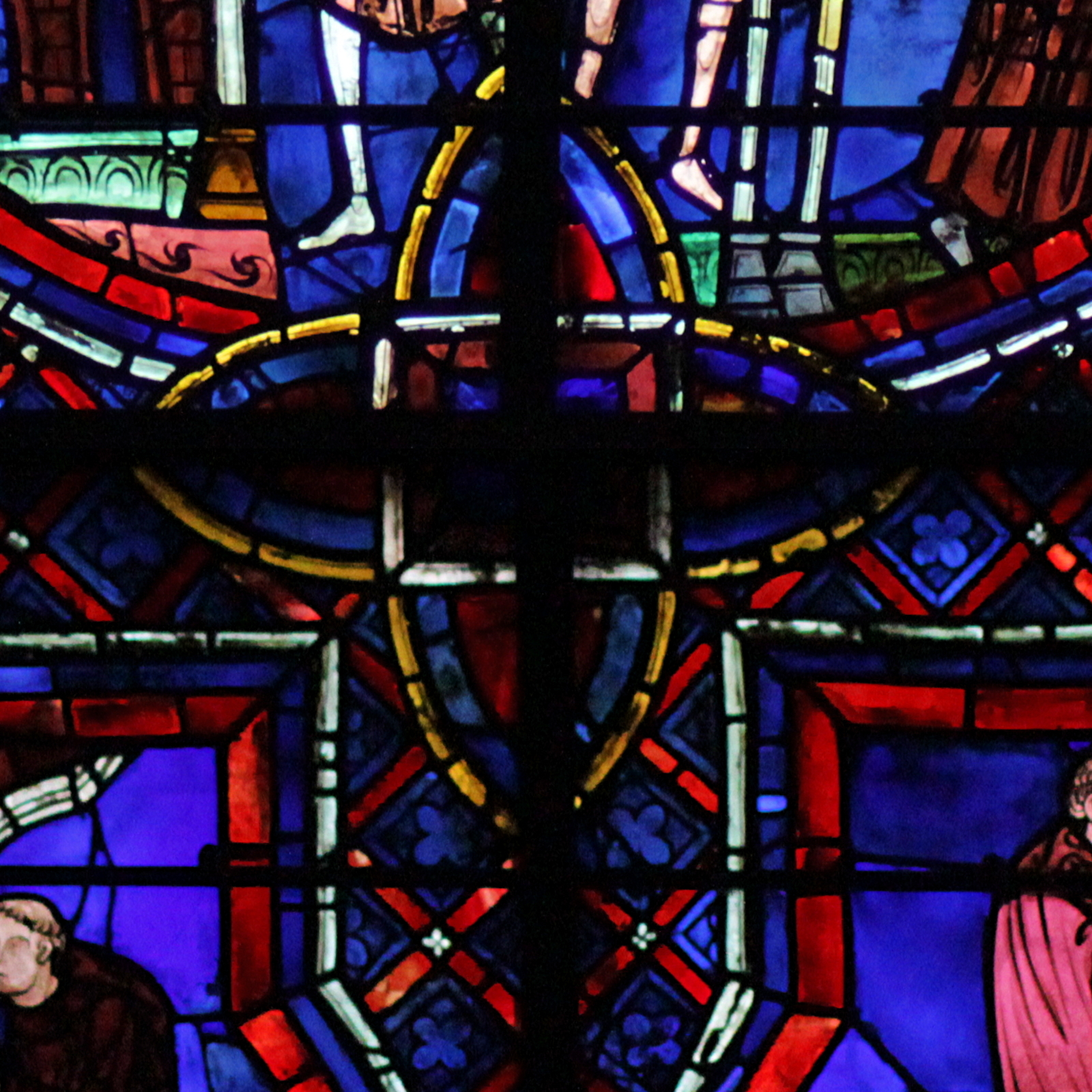 Stained glass of Notre Dame de Chartres - Window 12 - Life of Saint Remigius.